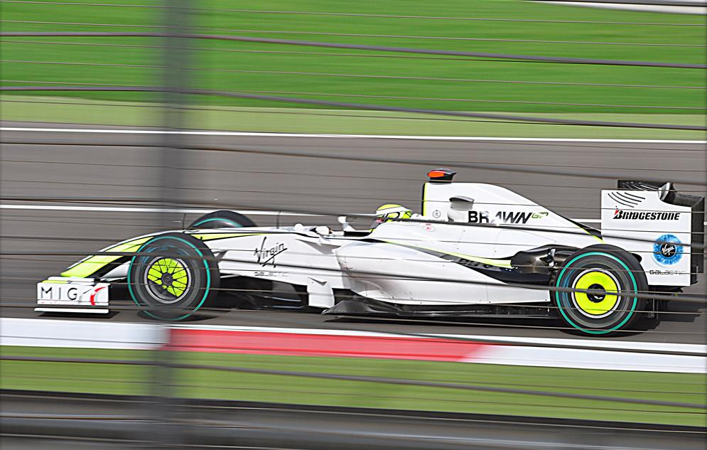 Jenson Button driving for Brawn GP at the 2009 Bahrain Grand Prix. 26th April 2009 Round 4 Bahrain International Circuit Sakhir Bahrain.